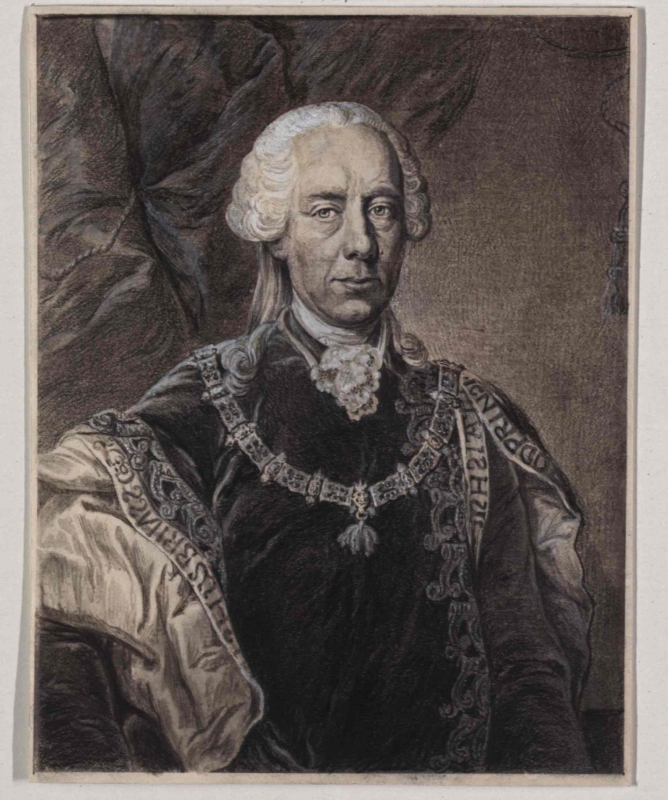 Portrait of Friedrich Wilhelm von Haugwitz (1702-1765)